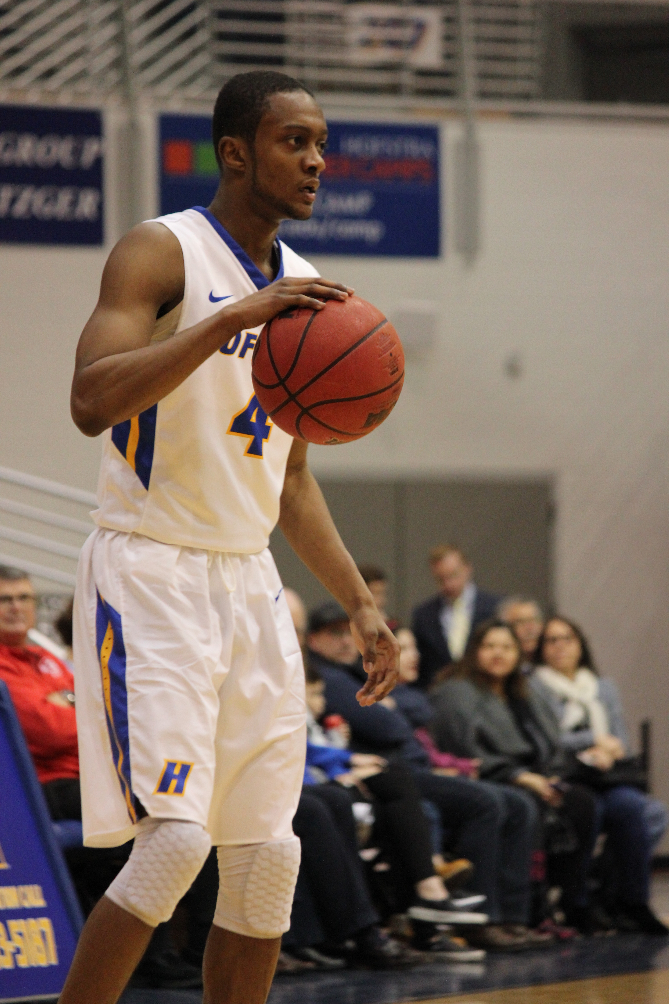 IMG_7405 Desure Buie